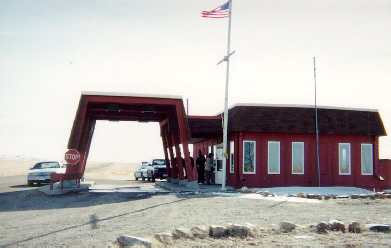 Whitlash, MT port of entry